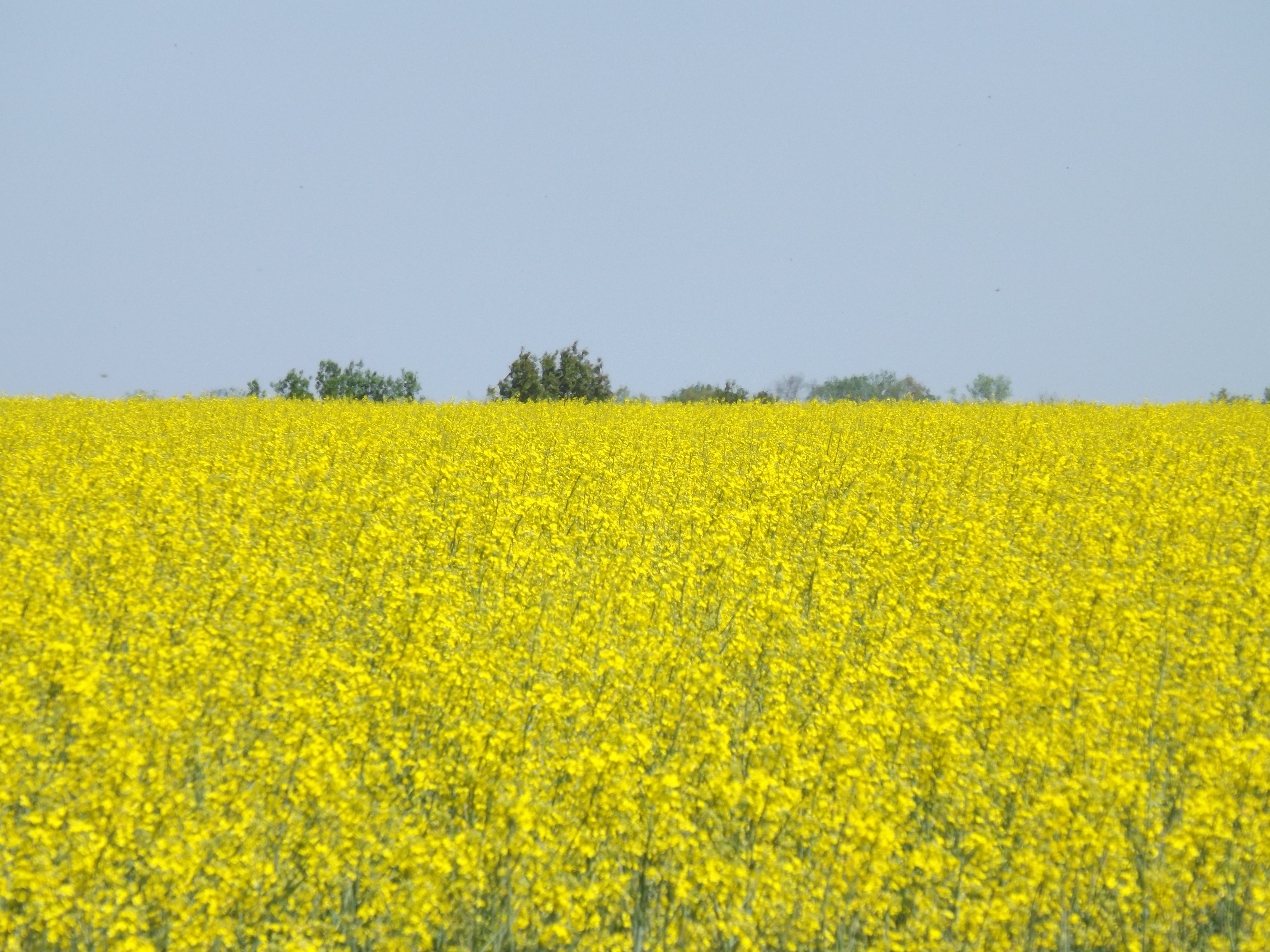 Rapeseed field in Palmyrivka village